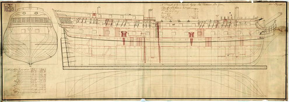 Photograph of plans of the Swedish ship of the line HMS Rättvisan.